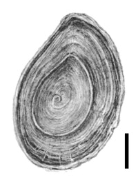 Drawing of an operculum of Bithynia tentaculata. Scale bar is 1 mm.